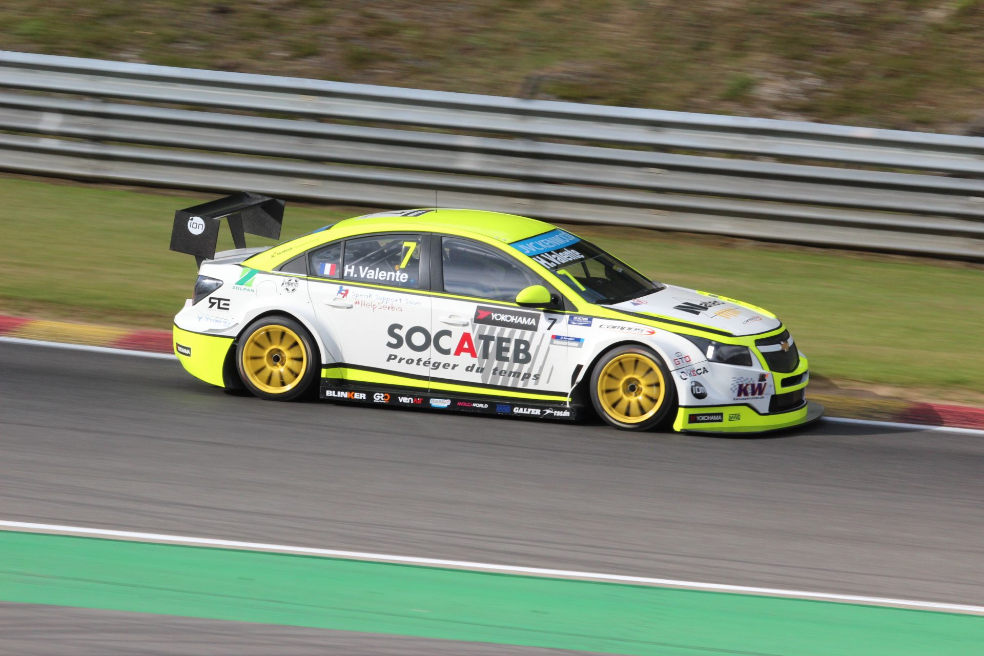 Hugo Valente at Spa in 2014